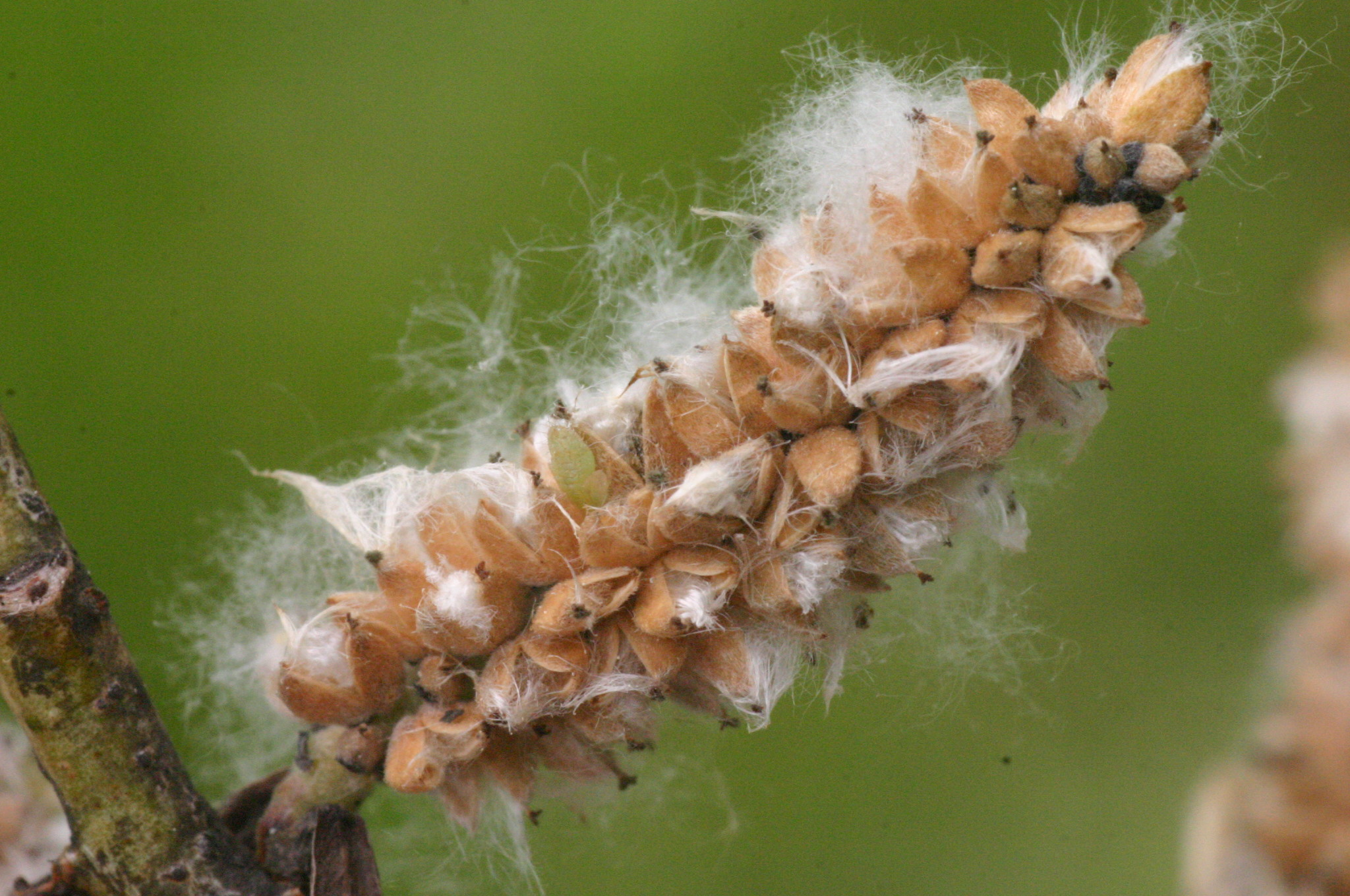 Salix purpurea